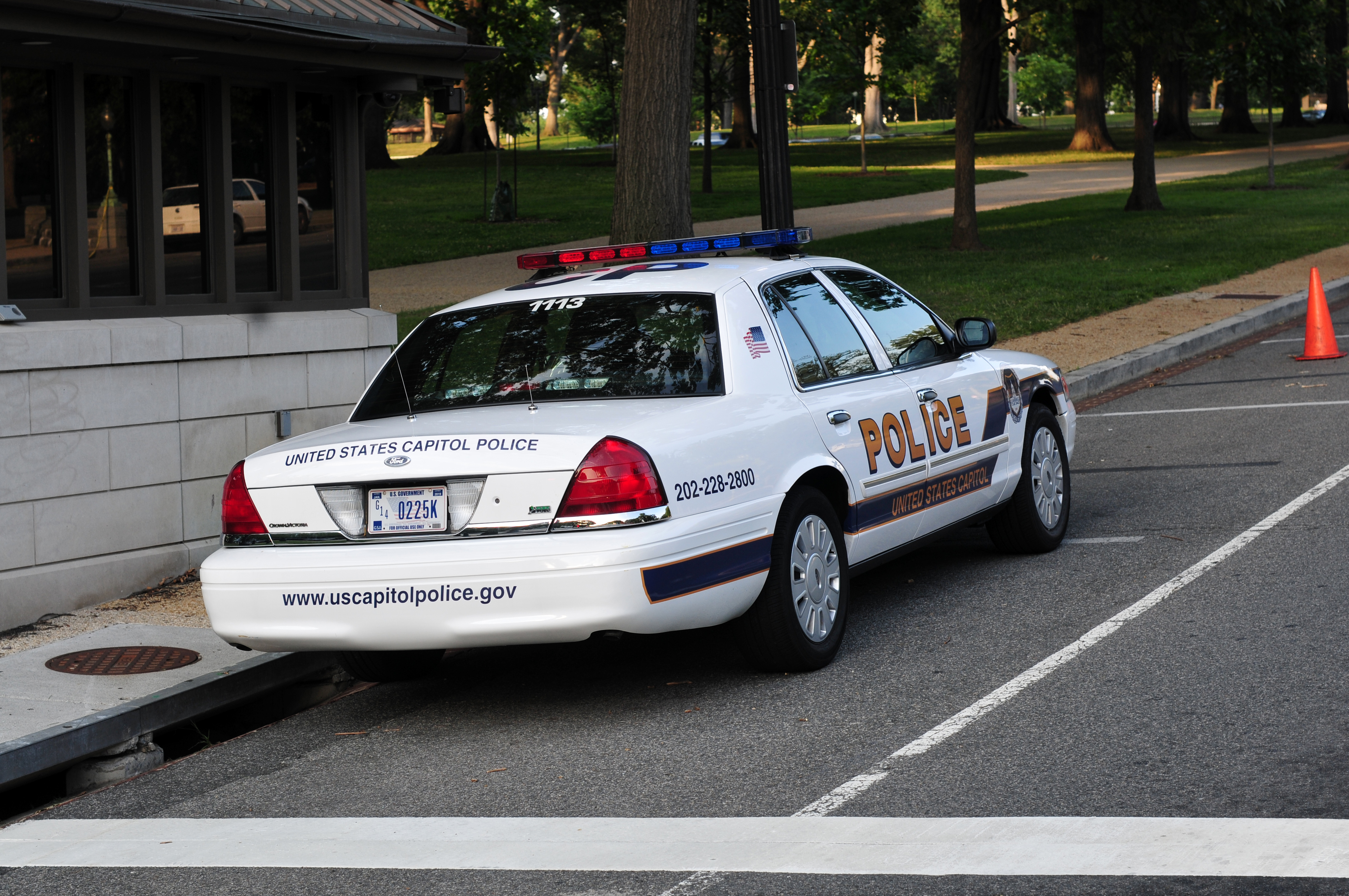 Car of the United States Capital Police, Washington D.C. The making of this work was supported by Wikimedia Austria. For other files made with the support of Wikimedia Austria, please see the category Supported by Wikimedia Österreich.